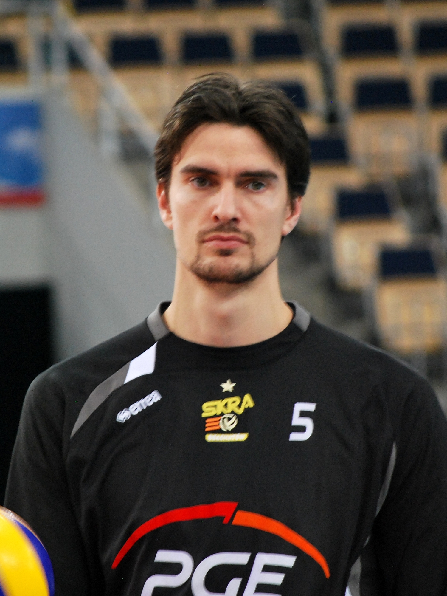 Wytze Kooistra, volleyball player from the Netherlands